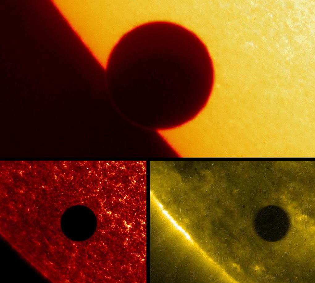 To read more about the 2012 Venus Transit go to: Add your photos of the Transit of Venus to our Flickr Group here: NASA FILE PHOTO: NASA joined the world June 8, 2004, in viewing a rare celestial event, one not seen by any person now alive. The "Venus transit" -- the apparent crossing of our planetary neighbor in front of the sun -- was captured from the unique perspective of NASA's sun-observing TRACE spacecraft. The top image shows Venus on the eastern limb of the sun. The faint ring around the planet comes from the scattering of its atmosphere, which allows some sunlight to show around the edge of the otherwise dark planetary disk. The faint glow on the disk is an effect of the TRACE telescope. The bottom left image is in the ultraviolet, and the bottom right image is in the extreme ultraviolet. The last "Venus transit" occurred more than a century ago, in 1882, and was used to compute the distance between Earth and the sun. Scientists with NASA's Kepler mission hope to discover Earth-like planets orbiting other stars by searching for transits similar to this one. If people missed the June 8, 2004, Venus transit, they will have another chance in 2012 on June 6. After that, there will not be another Venus transit until Dec. 11, 2117. Credit: NASA/LMSAL NASA image use policy. NASA Goddard Space Flight Center enables NASA’s mission through four scientific endeavors: Earth Science, Heliophysics, Solar System Exploration, and Astrophysics. Goddard plays a leading role in NASA’s accomplishments by contributing compelling scientific knowledge to advance the Agency’s mission. Follow us on Twitter Like us on Facebook Find us on Instagram